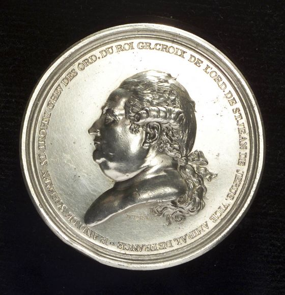 Medal issued in 1784 in honor of Suffren after his return from the war in India.